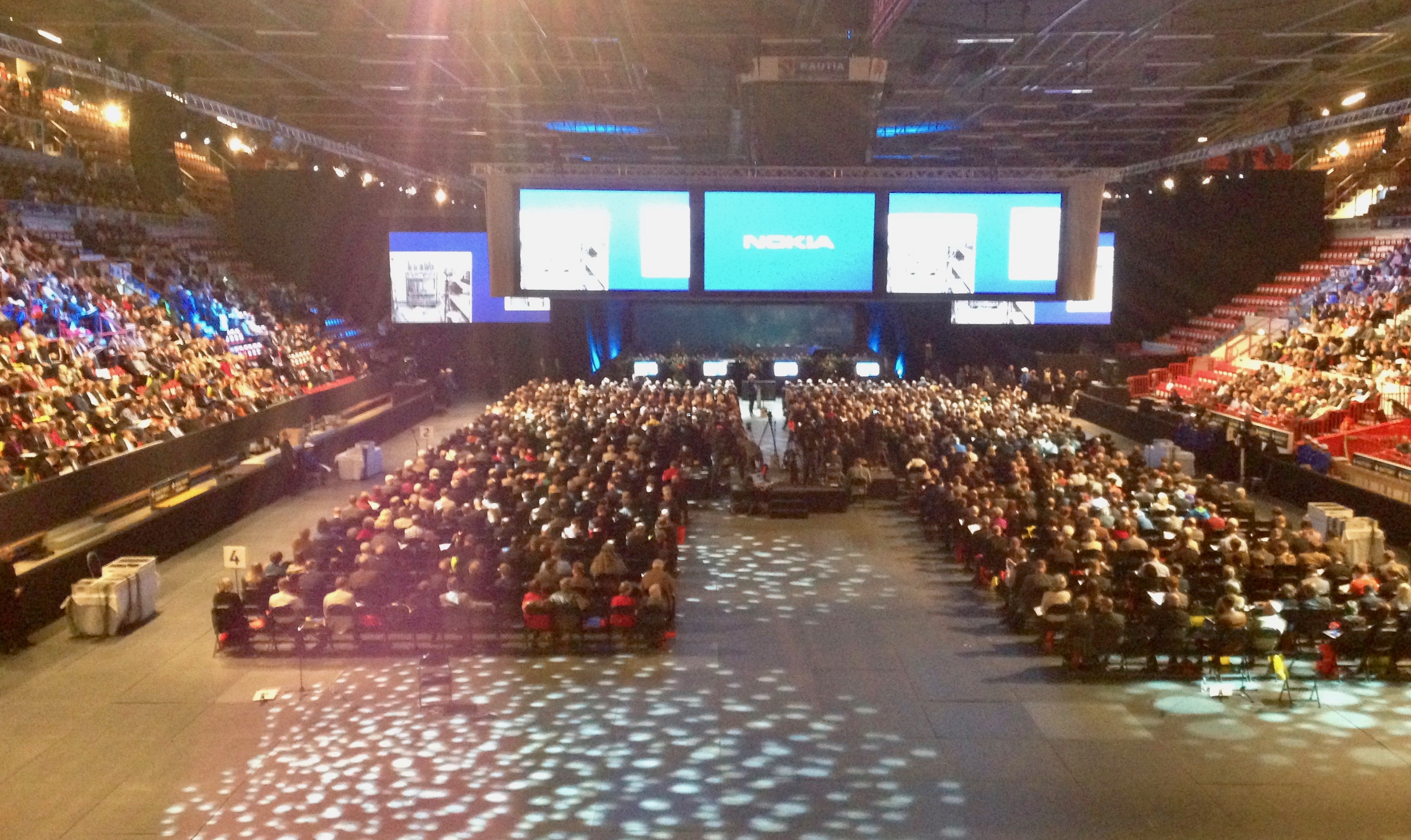 Extraordinary General Meeting of Nokia Corporation in Helsinki Ice Hall on 19 November 2013.